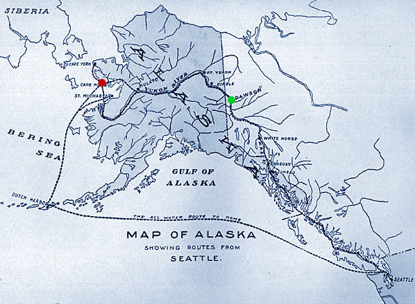 Map of routes from Seattle to Nome around 1900